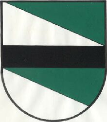 Coat of arms of Bruck am Ziller, Tirol